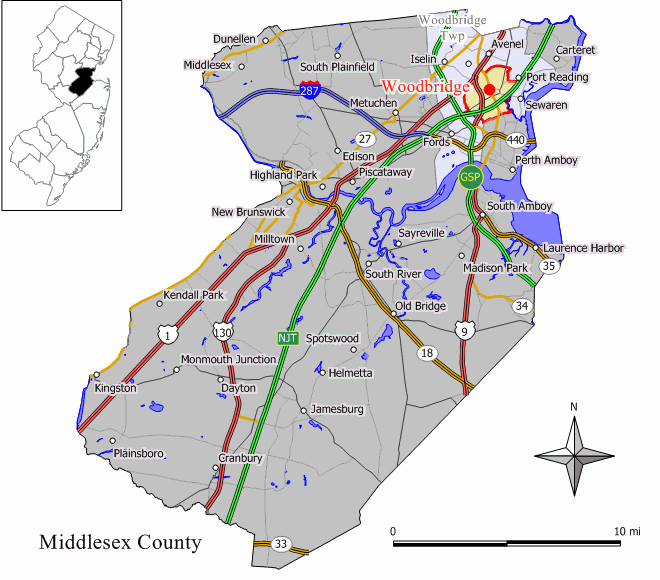 Description: Map of Woodbridge CDP in Middlesex County, New Jersey Source: Jim Irwin Original work by Jim Irwin, December 2005.